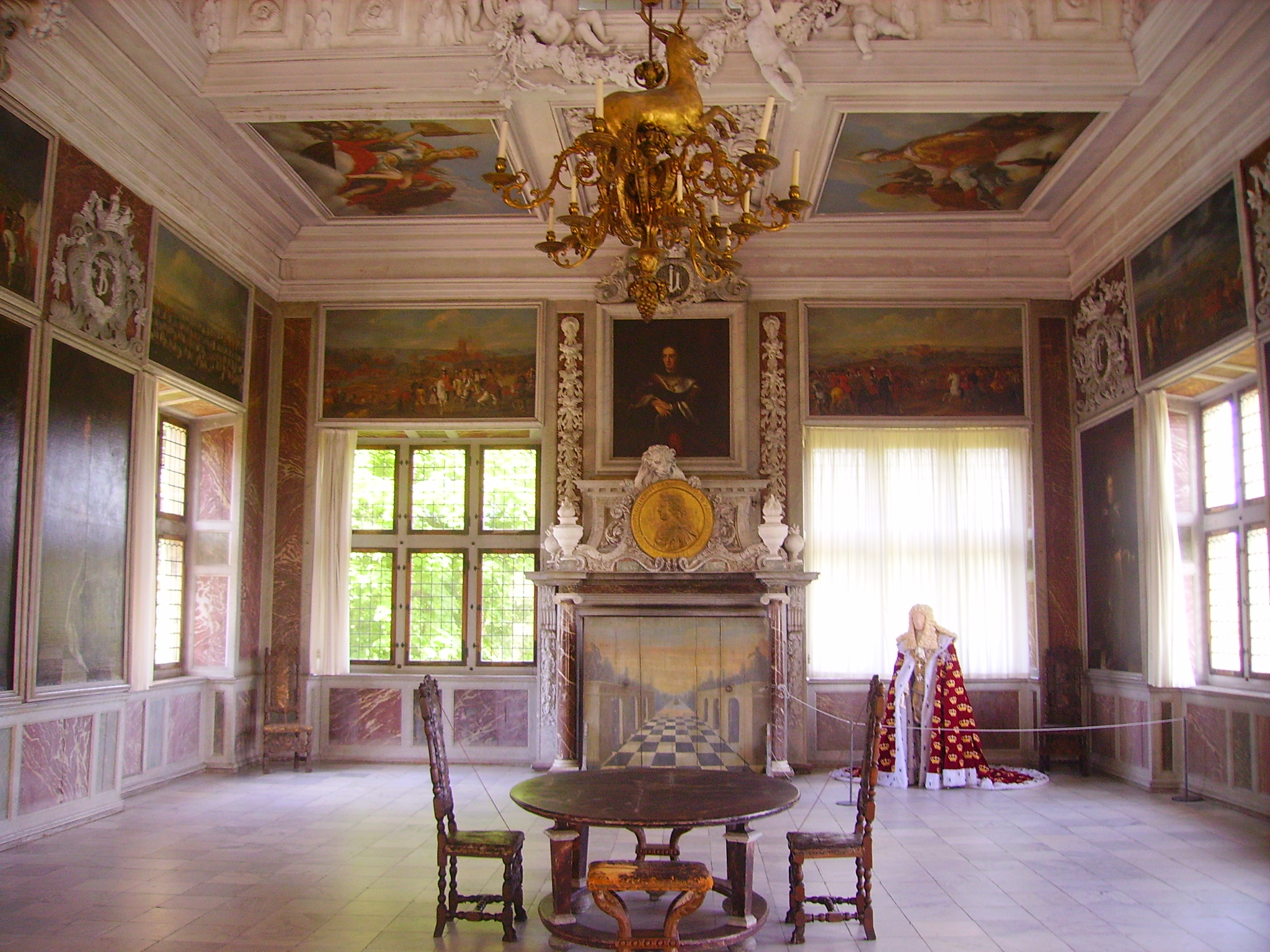 Audience Hall of Frederiksborg Palace, Hilleröd